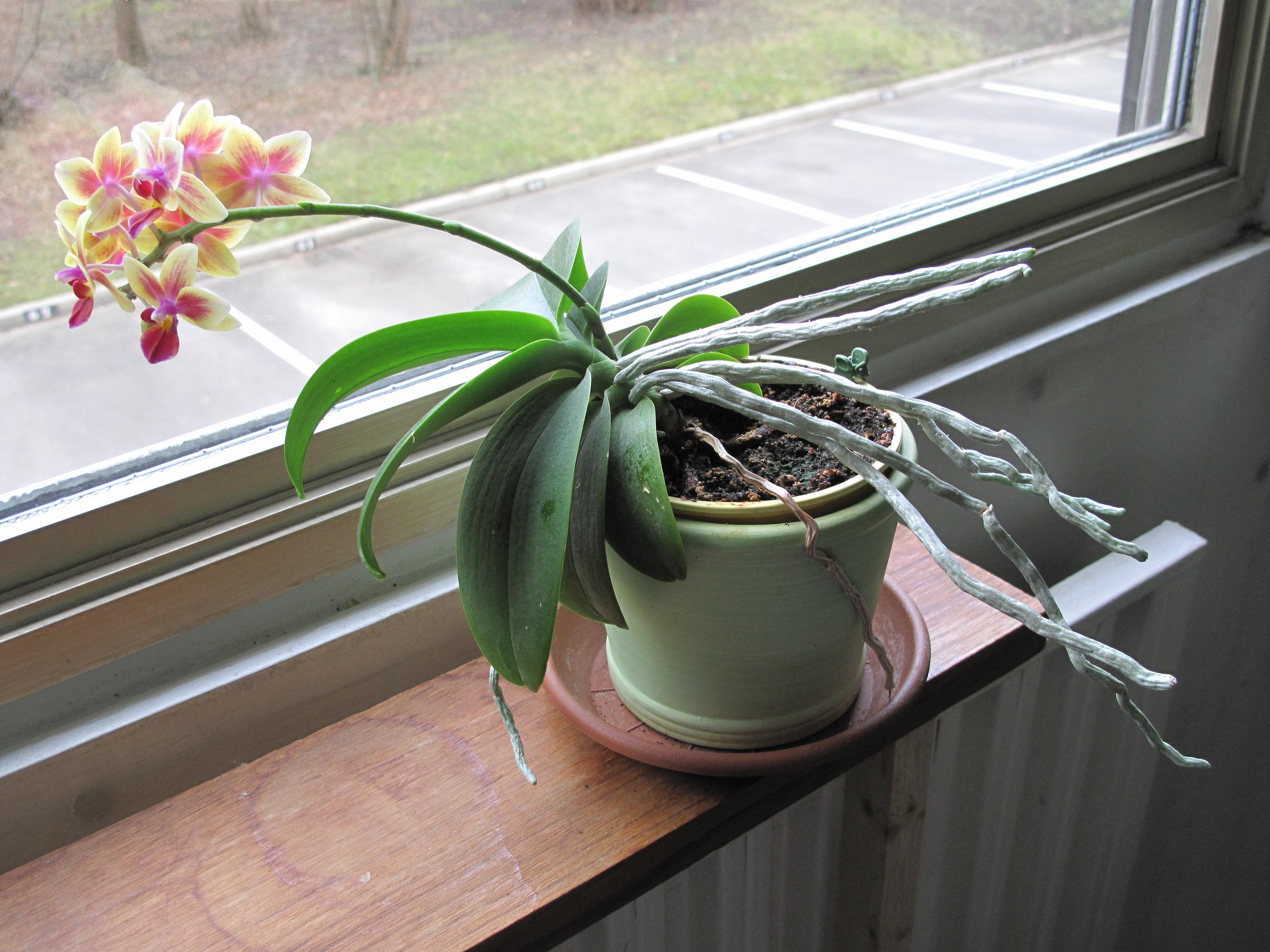 Exemple of phototropism with a small orchid (Phalaenopsis) : leaves and flowers grow to the light and aerial roots grow away.